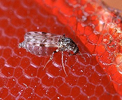 A sixteenth-inch-long female biting midge, Culicoides sonorensis, feeds blood delivered through artificial membrane developed for mass insect rearing.